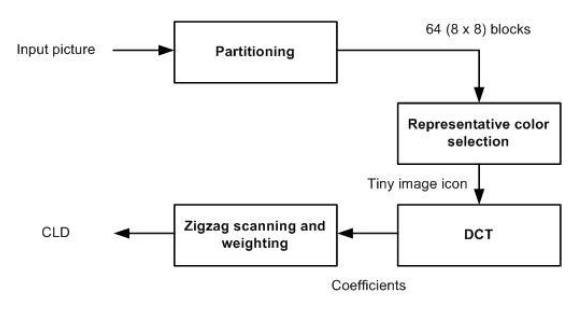 Extraction process of the Color Layout Descriptor.